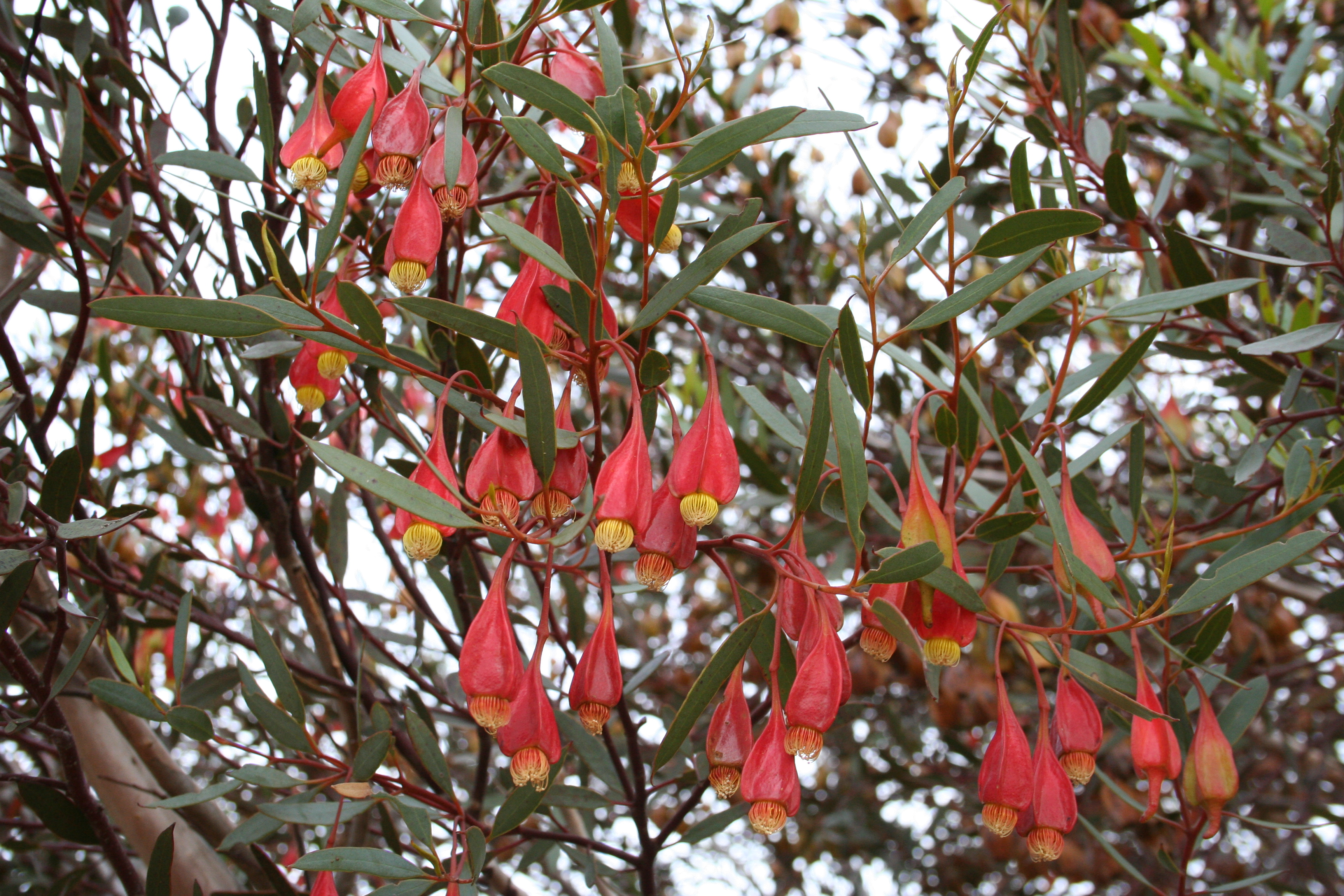 Eucalyptus forrestiana with red flower just to west of Hyden